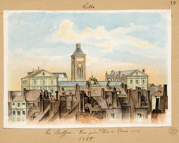 Lille : Le Beffroi, vue prise de la rue de Parisdate : 1855 [1855]dimensions : 15 x 21,5 cm.technique : lithographie en couleur